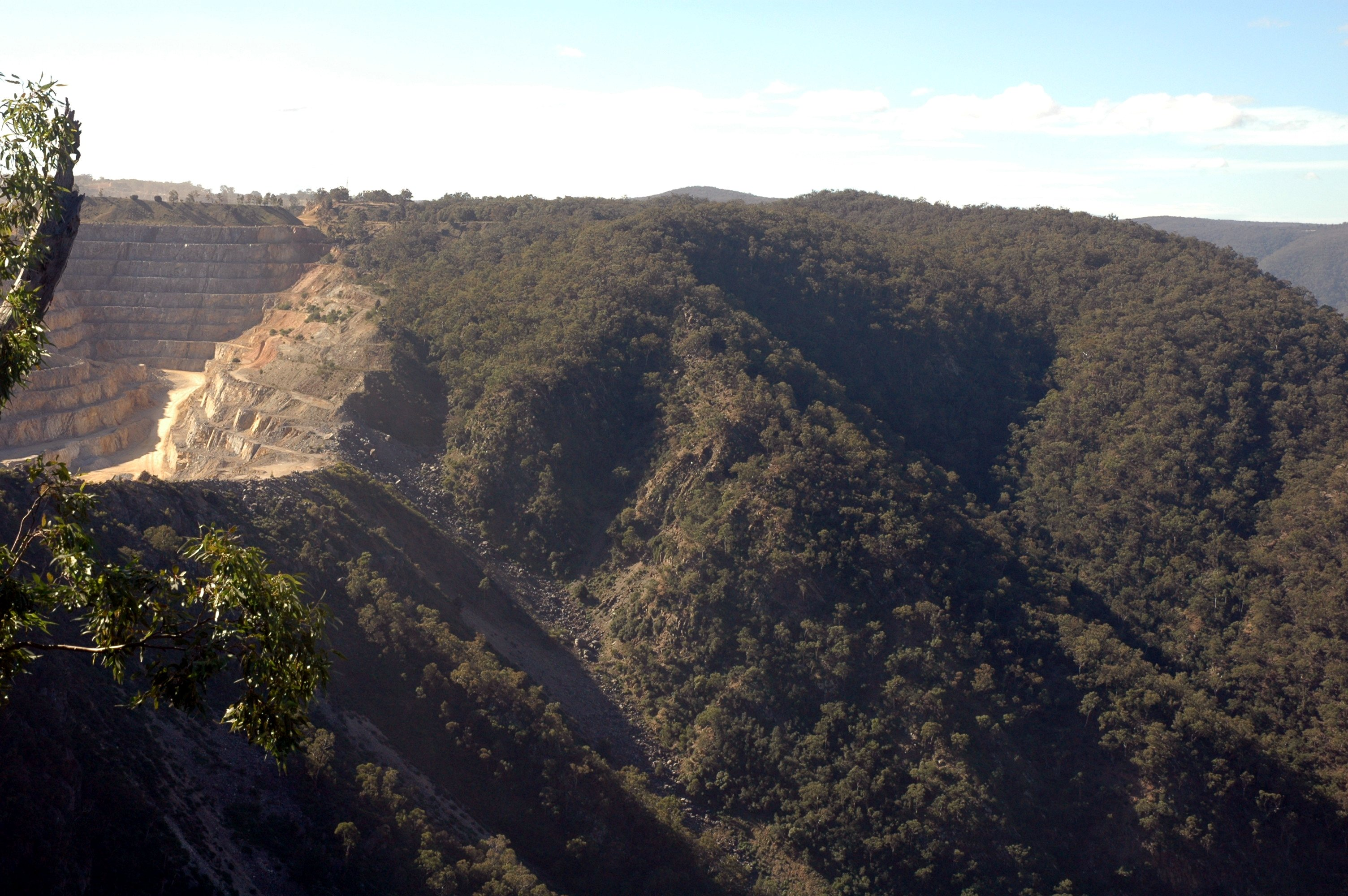 The view from the Bungonia Lookdown is marred by the presence of a limestone quarry. The quarry is due to cease operations in 2011, followed by site remediation.